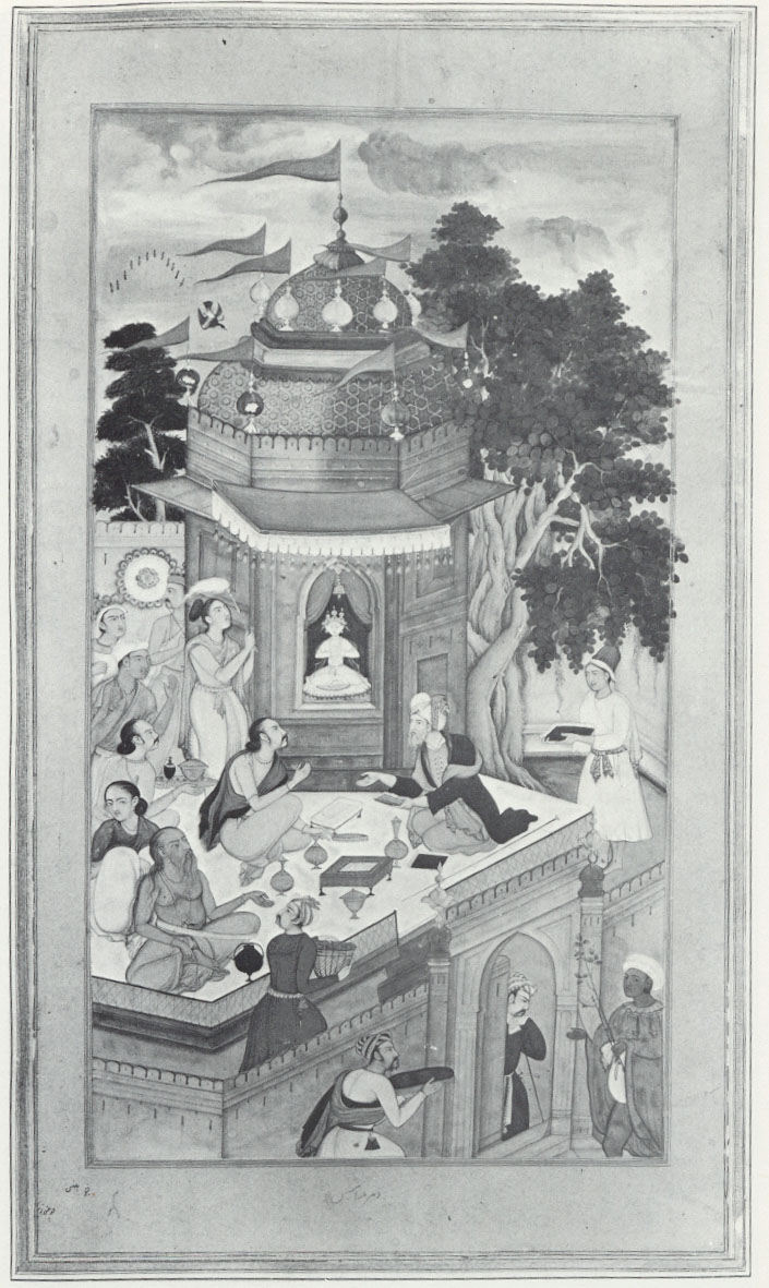 Sa'di and the idol of Somnath, India, c.1604 Source: Arts of the Islamic Book: The Collection of Prince Sadruddin Aga Khan, by Anthony Welch and Stuart Cary Welch (Ithaca: Cornell University Press for the Asia Society, 1982), p. 194; scan by FWP, Sept. 2001 "The Bustan (Garden) and Gulistan (Rose Garden) of the thirteenth-century Iranian poet Sa'di were among the most popular and frequently illustrated books in the Islamic world, particularly in Mughal India, where sumptuous copies were made for both Akbar and Jahangir....Dharm Das illustrates one of the most celebrated stories in the Bustan on folio 78b. At one point in his extensive travels Sa'di stopped at the great temple of Somnath in India, where he engaged in religious discussion with Brahmin priests. To his explication and praise of Islam they responded by demonstrating that the temple's idol gestured in response to their prayers. Initiallyconfounded, Sa'di inspected the statue at night and discovered a mechanical device that operated the image's arms. And on the following day he vindicated his own position by confronting the priests with their trickery." (pp. 191, 197)